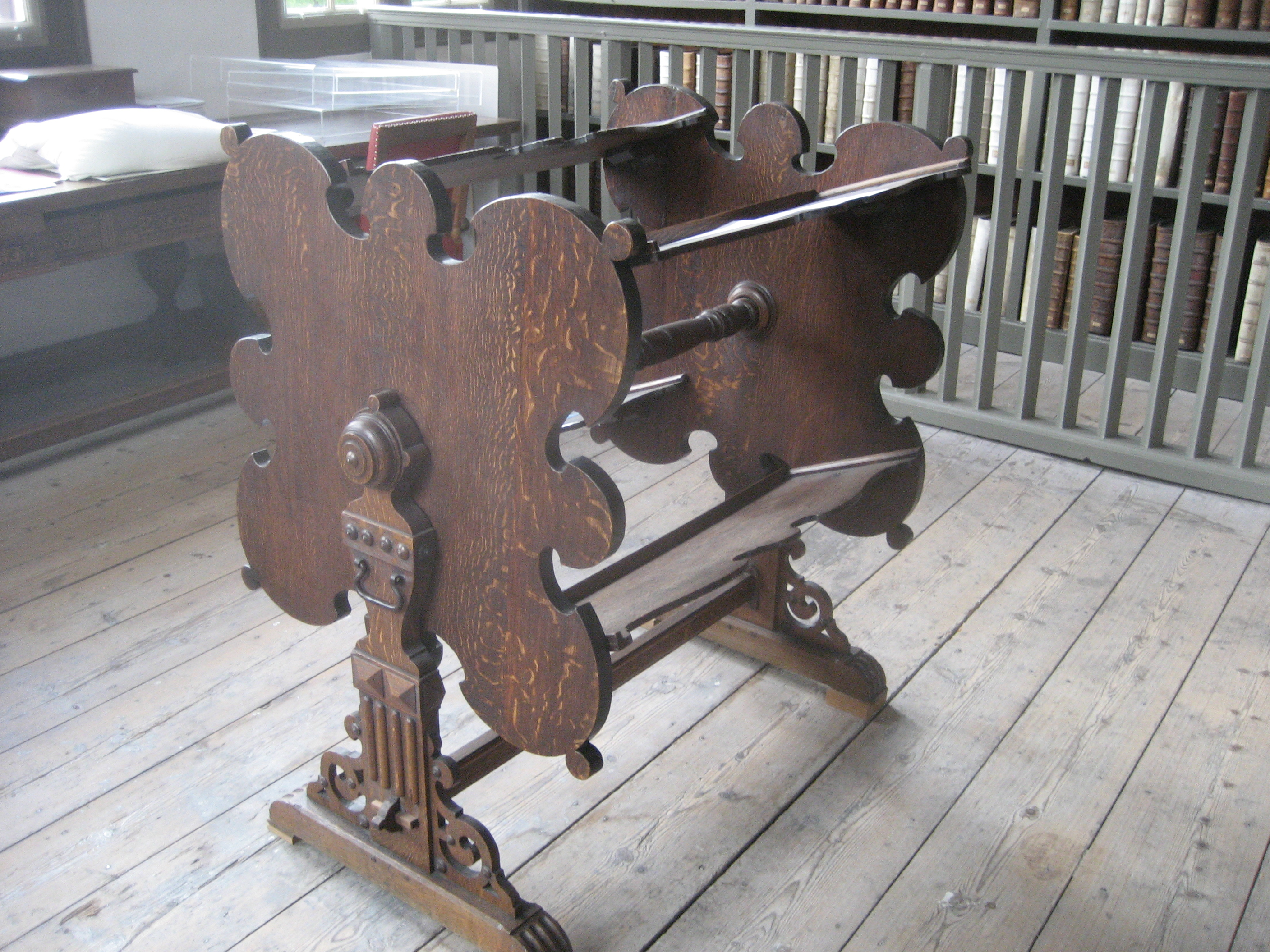 Bookwheel at Bibliotheca Thysiana Leiden (the Netherlands) -2016